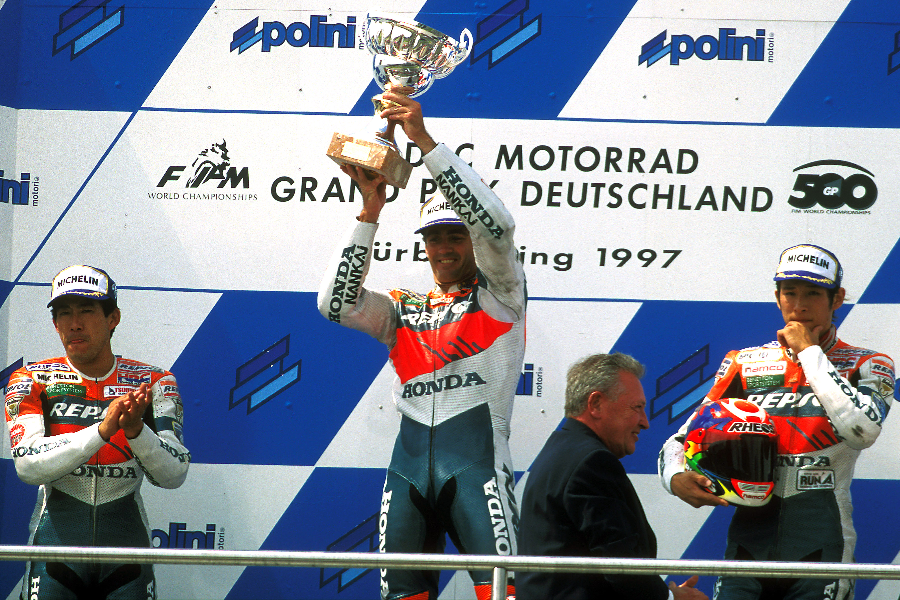 Tadayuki Okada, Mick Doohan (lifting his trophy) and Takuma Aoki, celebrating on the podium after finishing in second, first and third place at the 1997 German Grand Prix.